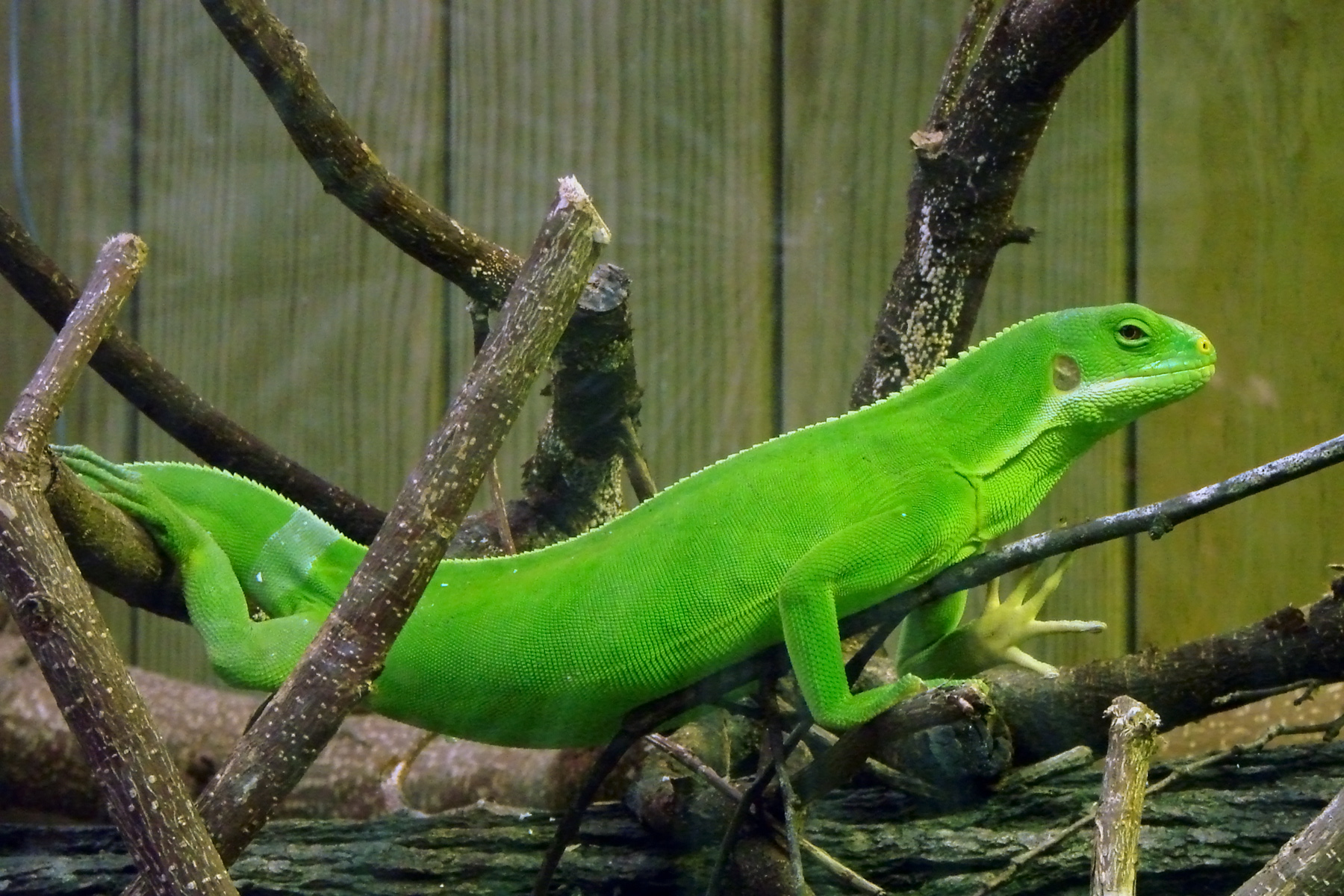 Fiji banded iguana (Brachylophus fasciatus). ZooParc de Beauval,Loir-et-Cher,France.